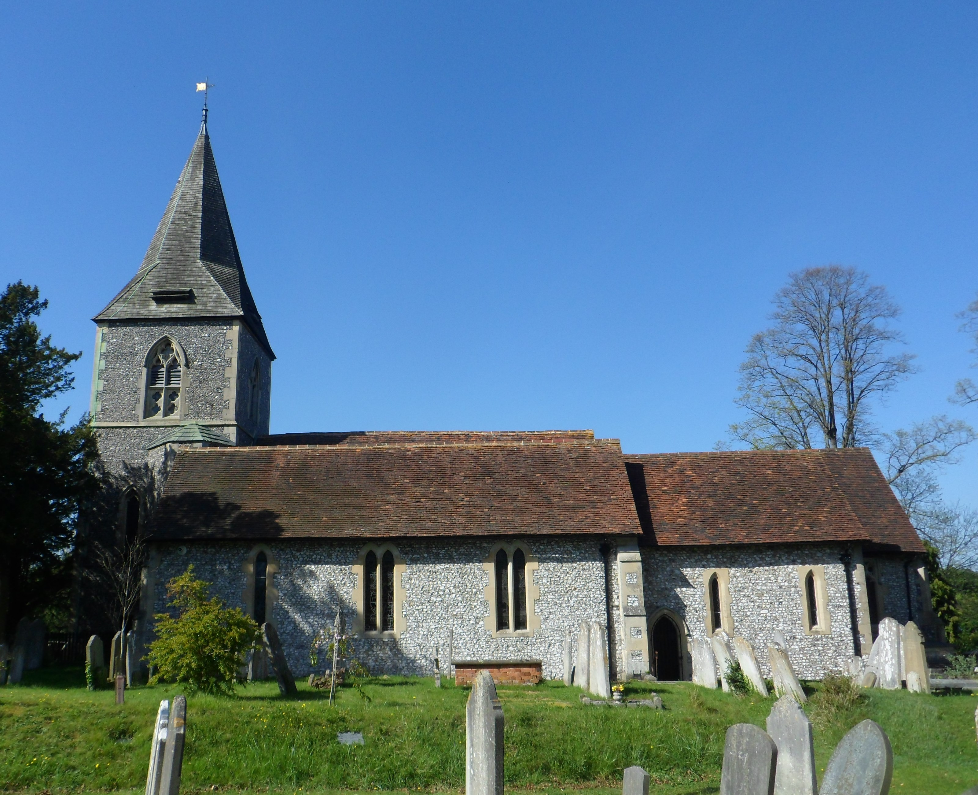 St John the Evangelist's Church, Epsom Road, Merrow, Borough of Guildford, Surrey, England.